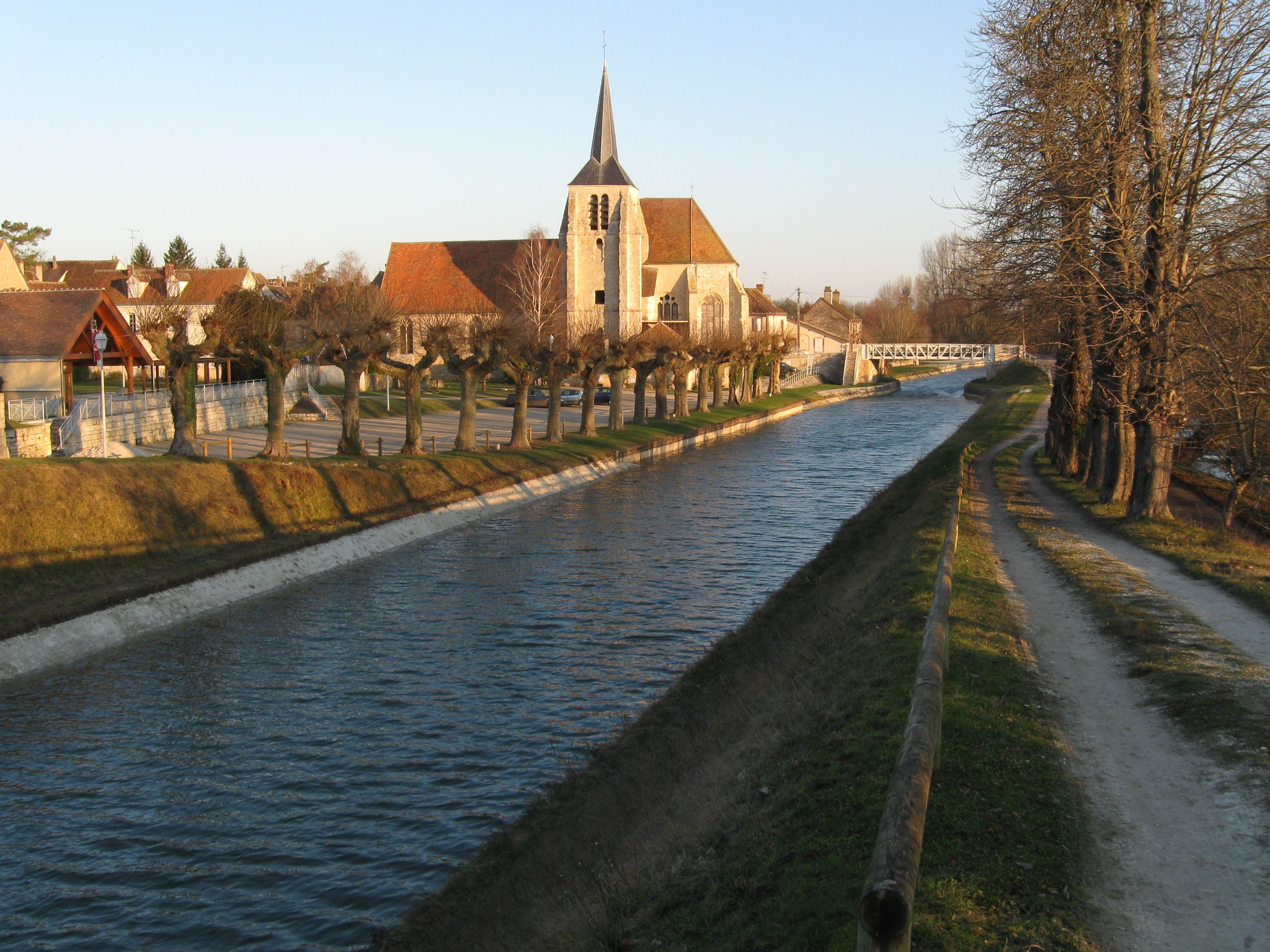 Montbouy, Loiret, Centre region, France. The church, view from the south ; and the towing path along the canal. This photo was taken from a point level with the top of the present lock the highest lock on the river Loing (7 m high). The parking lot behind the row of trees along the left of the canal, was built over the old canal port after the canal was slightly moved (towards the right of the photo) at the end of 19th century. One of the old locks' structure (there were two locks in Montbouy, previously to the change in the canal's course) is still visible immediately beside the present day lock.